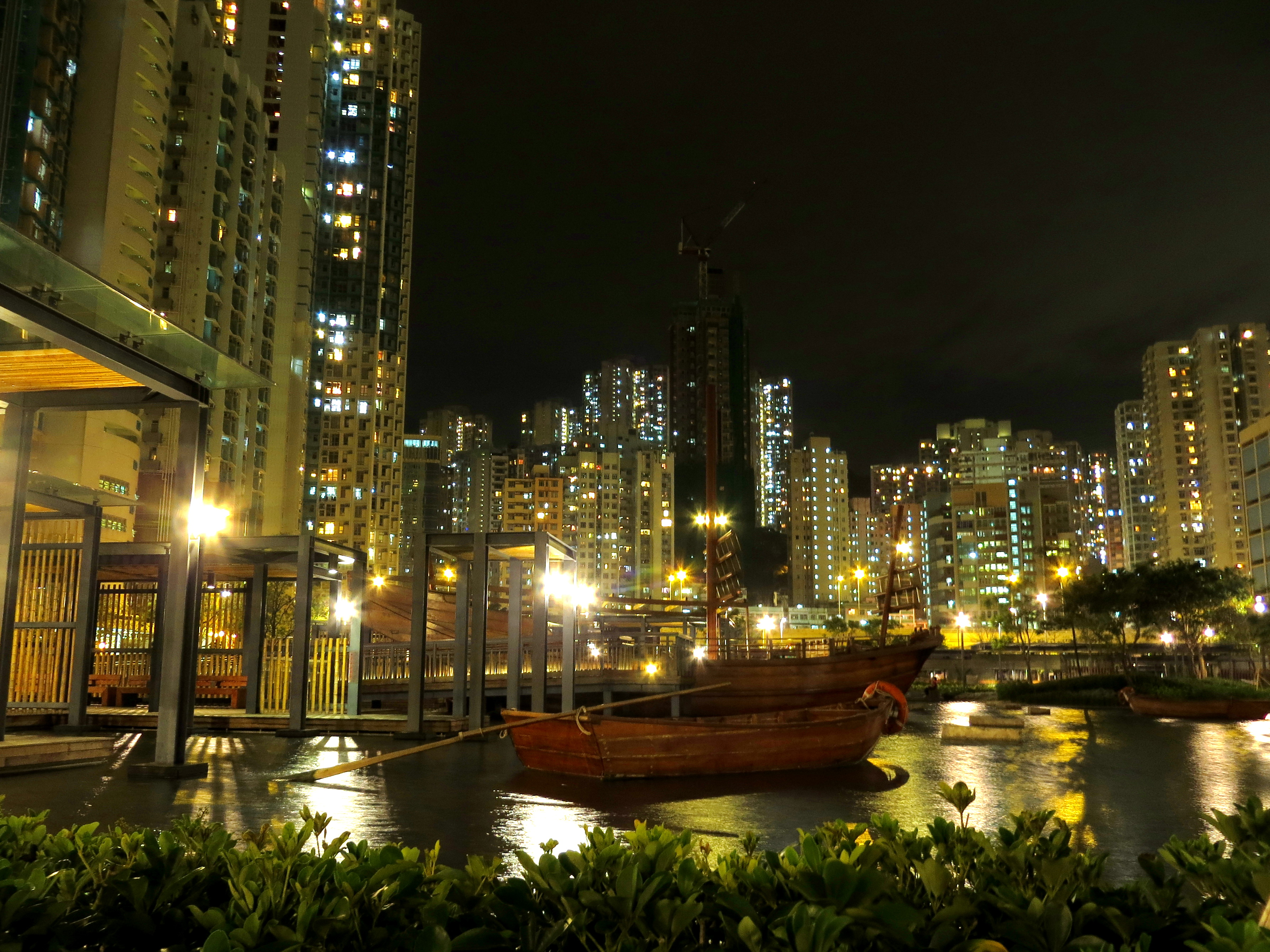 Aldrich Bay Park at night, Sai Wan Ho, Hong Kong.